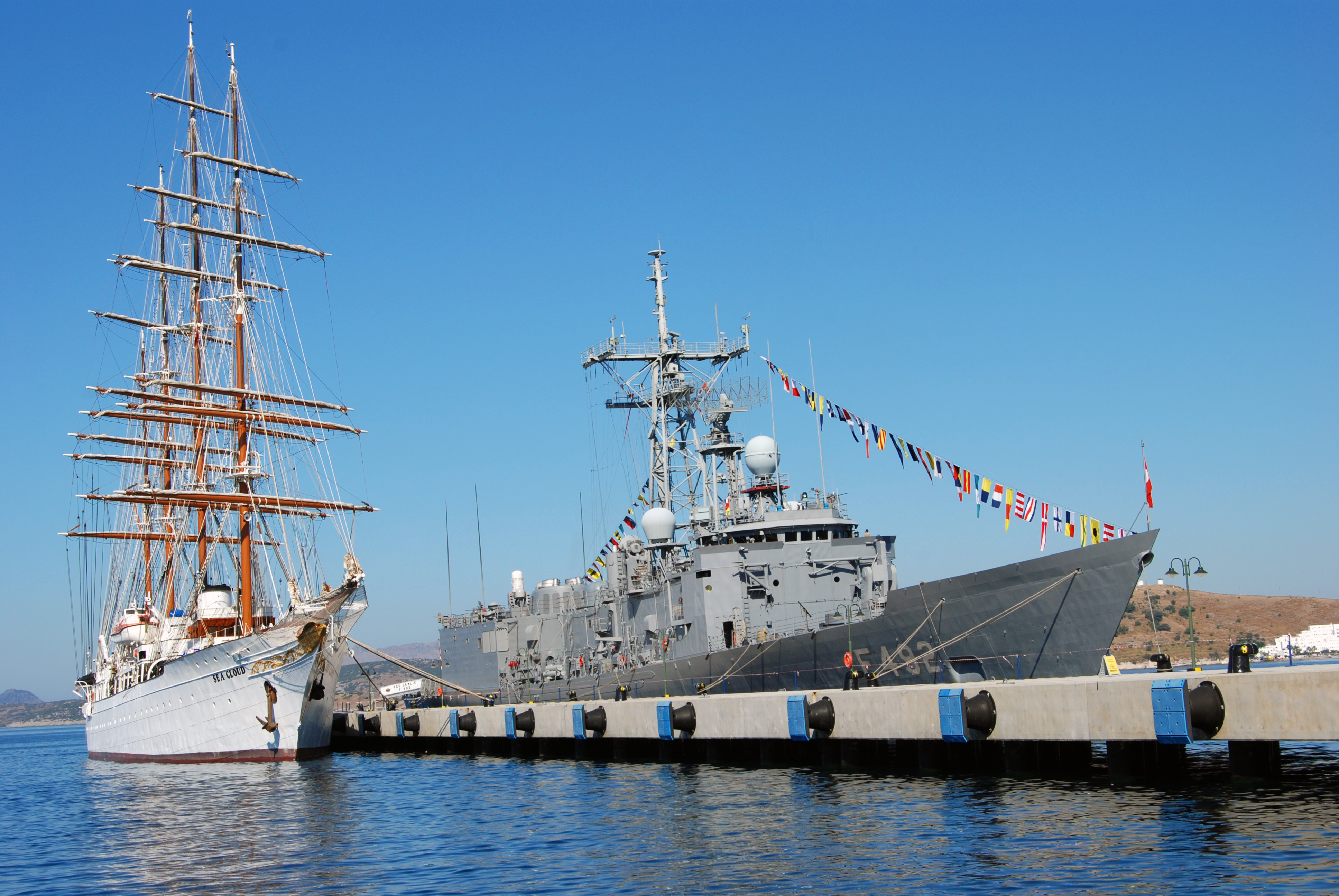 Sailing yacht Sea Cloud & Turkish frigate TCG Gemlik (F-492) at Bodrum on July 1, 2009.